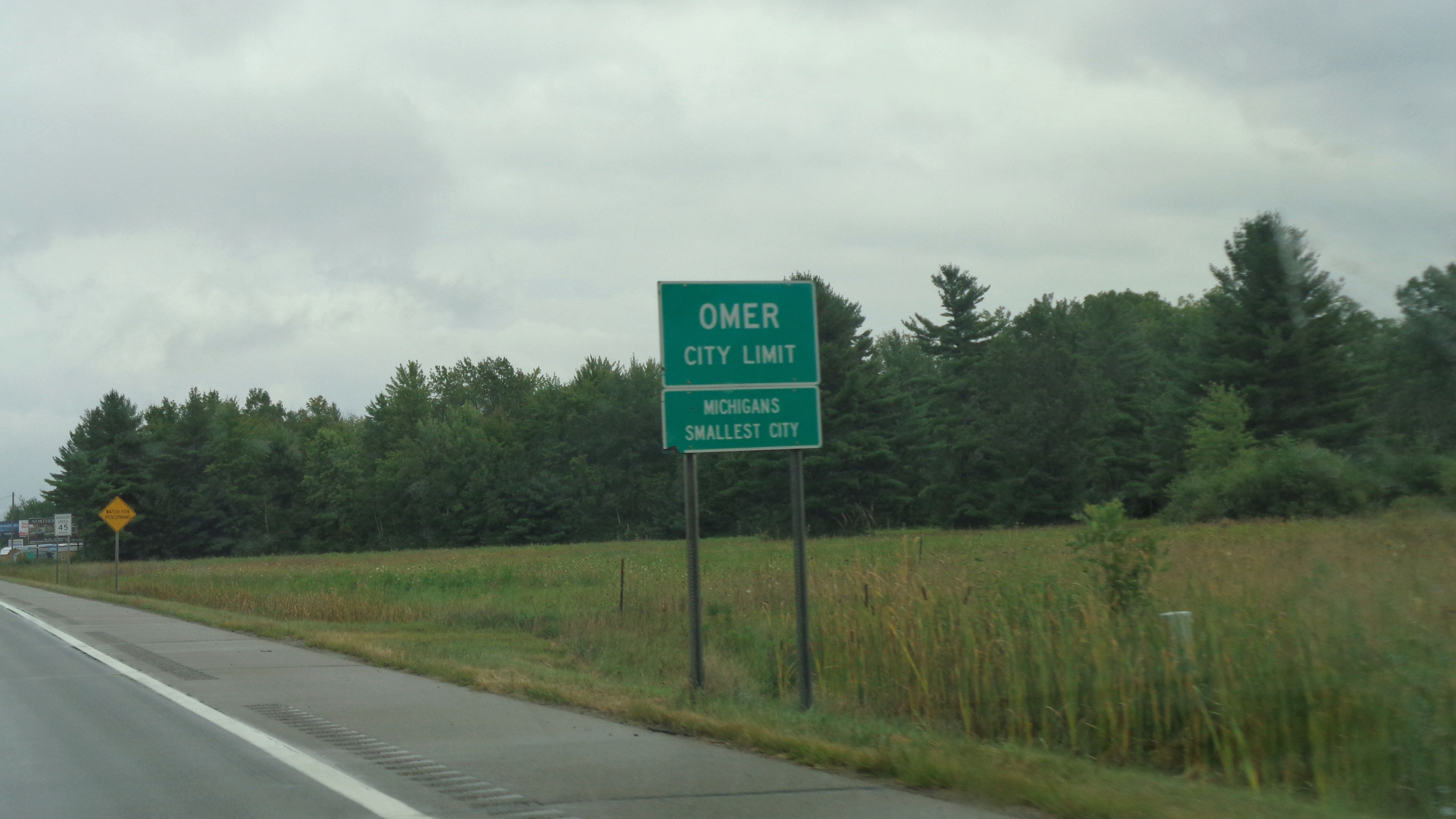 Omer, Michigan - Signage along U.S. Route 23